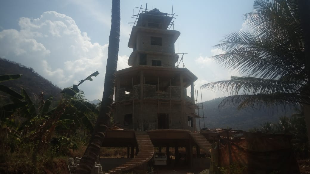 A temple for mother goddess Sri Jeyameena